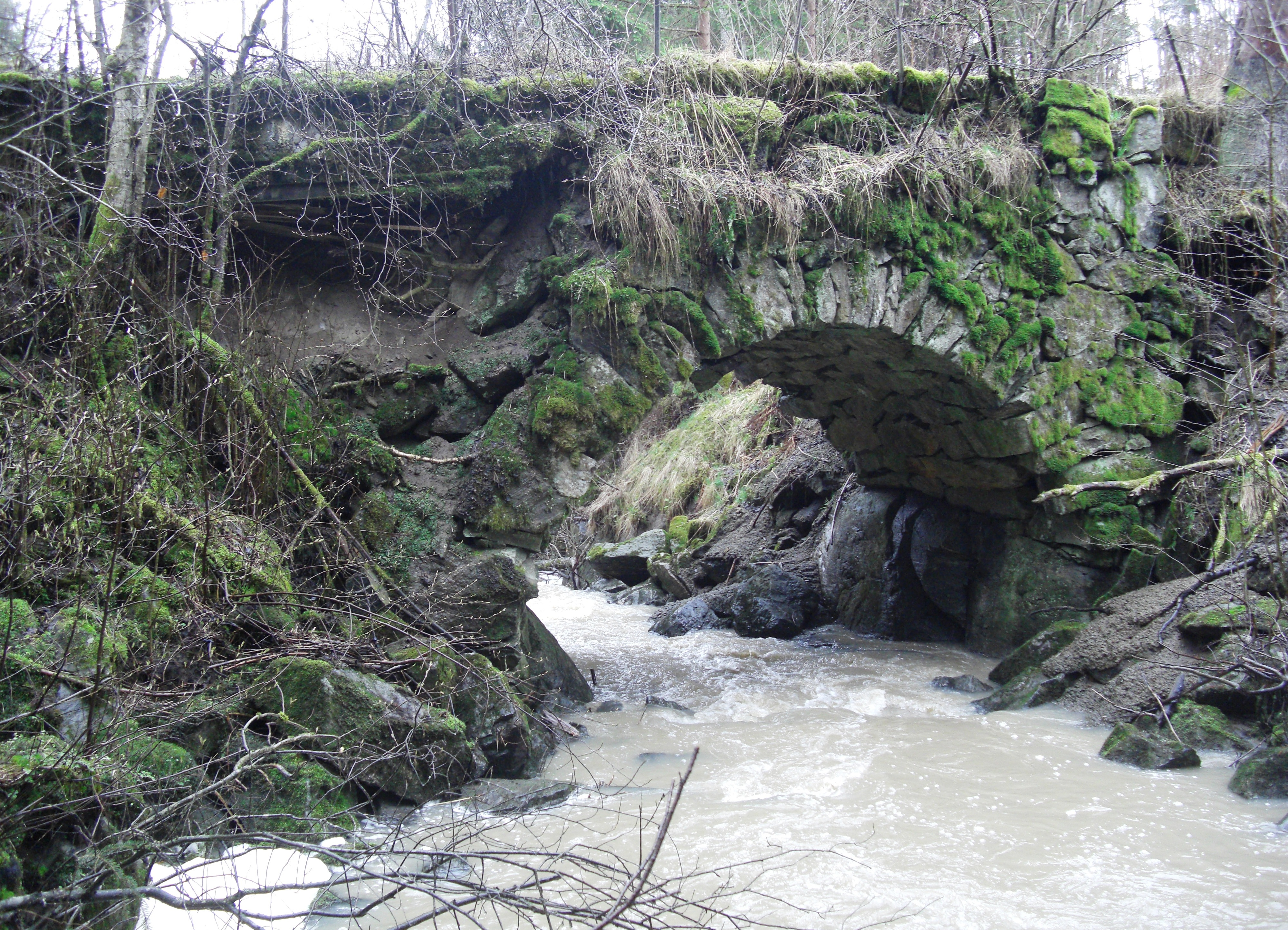 Ås bridge crossing Moensbekken